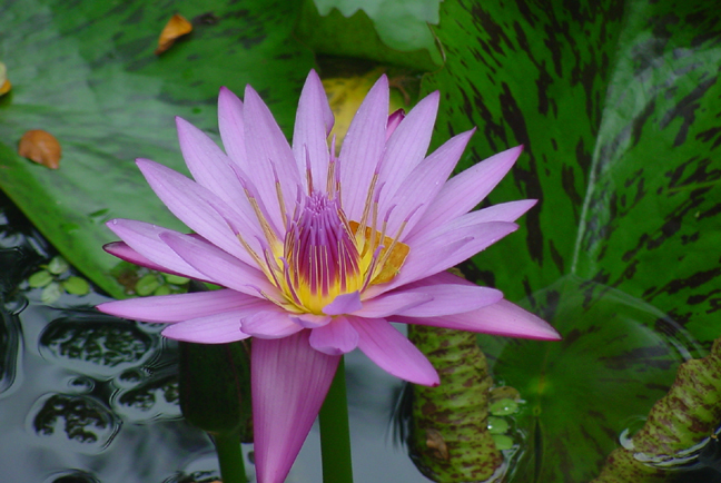 Water Lily